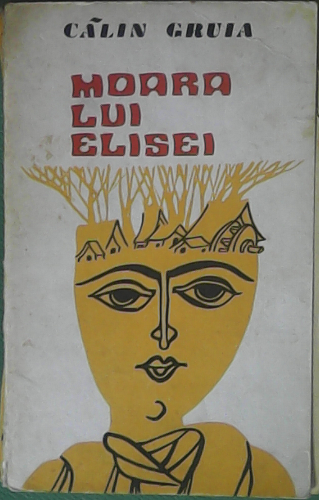 The Junimea publishing house edition of "Moara lui Elisei" by Călin Gruia (Iași, 1979). Photo of my own collection